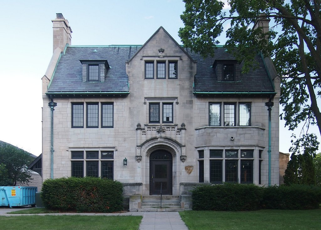 Watson P. Davidson House, 344 Summit Ave, St Paul, Minnesota, USA. A contributing property to the Historic Hill District and part of the campus of the former College of Visual Arts from 1948 to 2013.